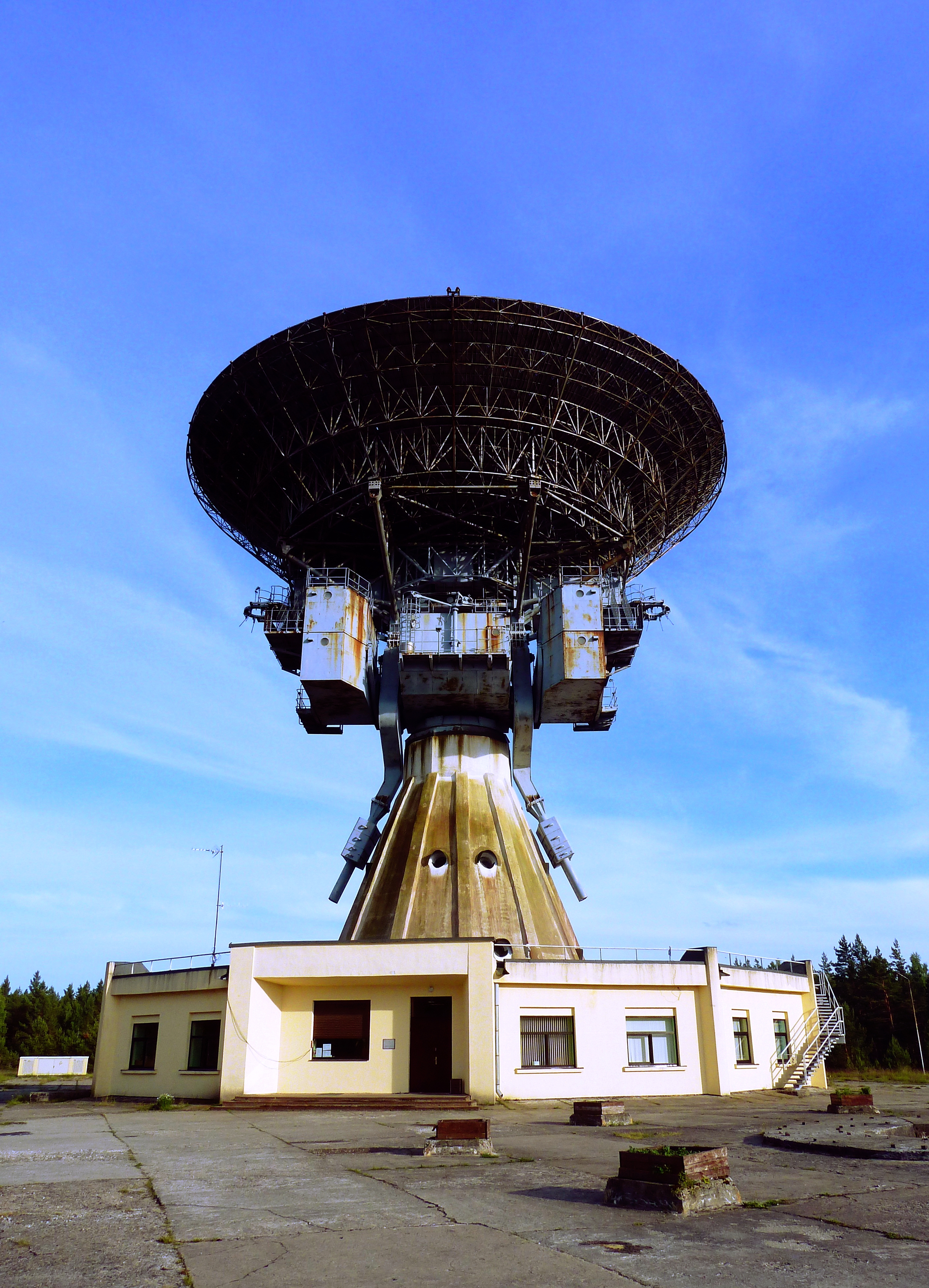 32 m radiotelescope RT-32 in Latvia, near Ventspils.